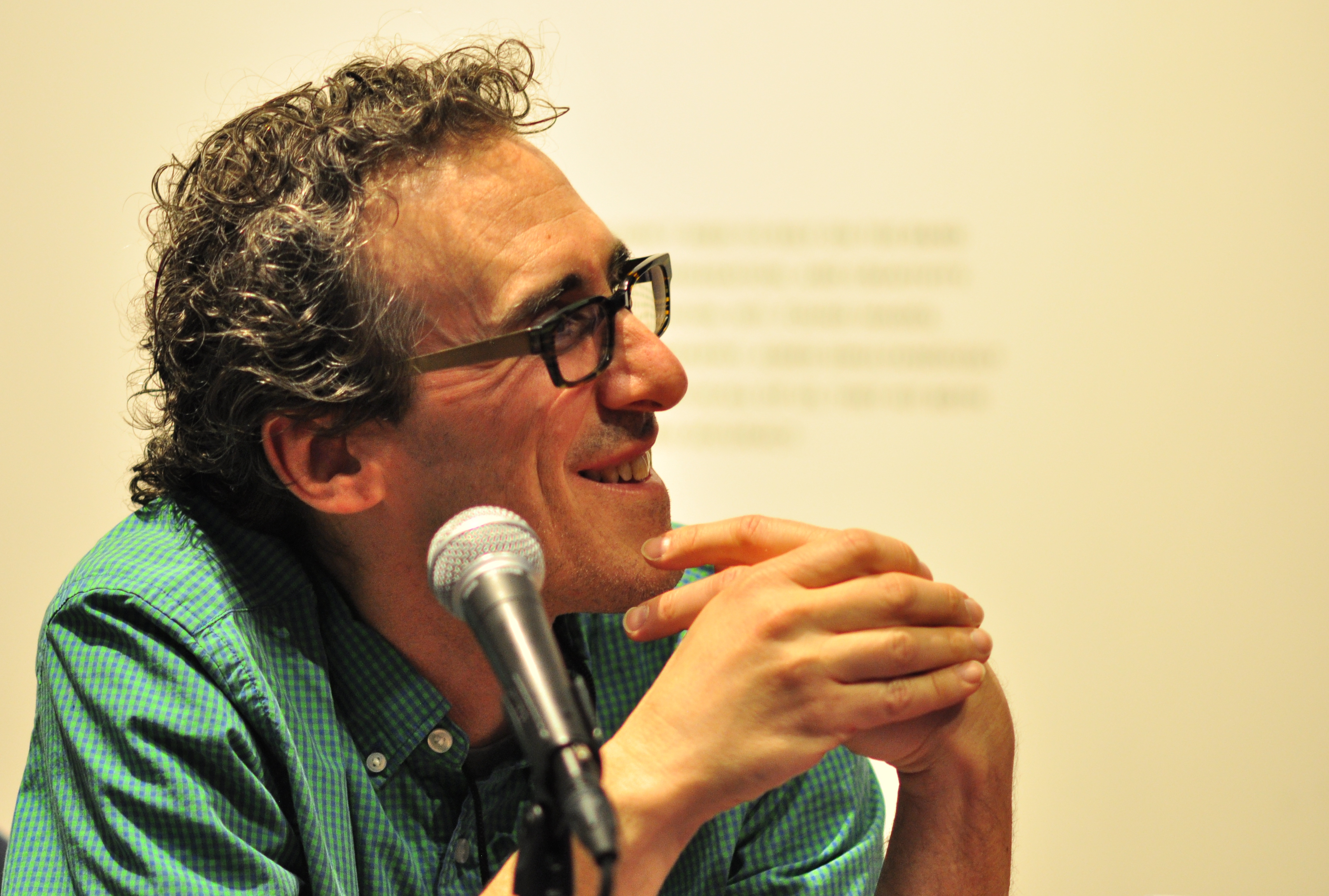 Will Hermes moderating the panel "Voicing Transgression", Friday, April 17, 2015, Pop Conference 2015. Level 3 Gallery Space, EMP Museum, Seattle, Washington.